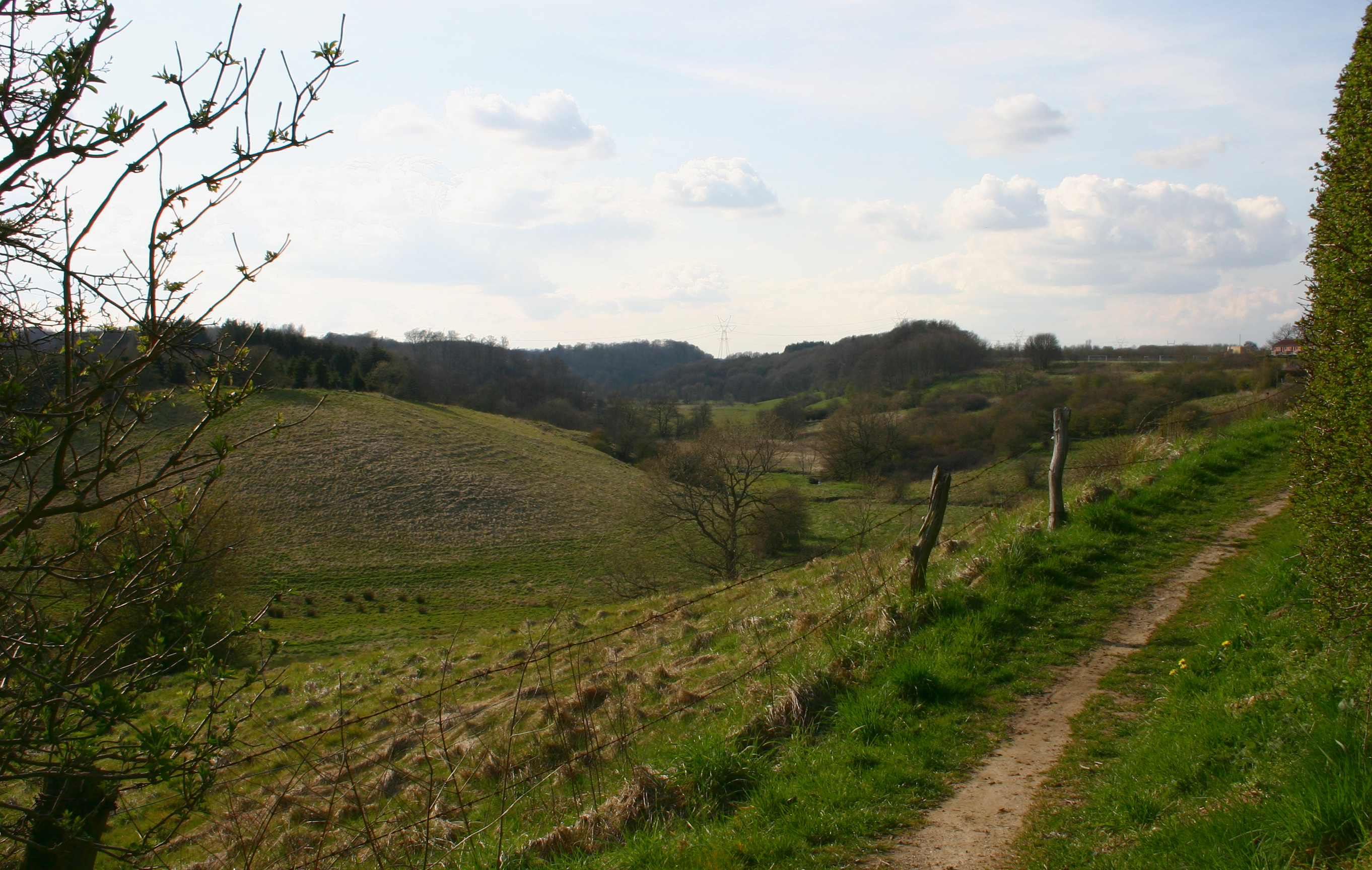 Ice,water and glaciers made these hills under the Weichsel-ice-period.Just outside Kolding,Denmark.